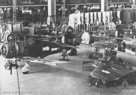 AWM Caption: AUSTRALIAN BUILT BOOMERANG FIGHTER AIRCRAFT UNDER CONSTRUCTION AT FISHERMENS BEND, VICTORIA.